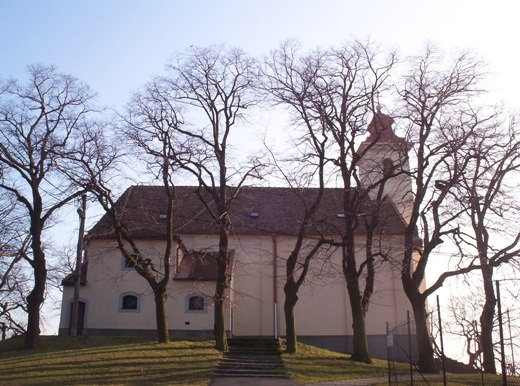 Chapel of Saint Rozalia.